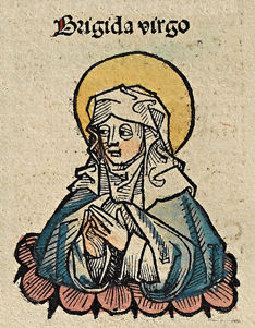 Woodcut from the Nuremberg Chronicle